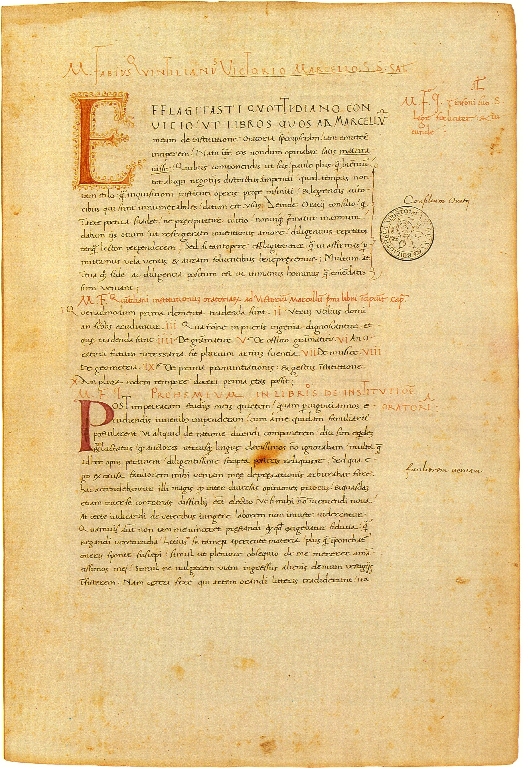 Quintilian, Institutio oratoria in ms. Biblioteca Apostolica Vaticana, Vaticanus Palatinus lat. 1556, fol. 1r.